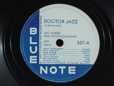 Art Hodes Docot Jazz - Blue Note records